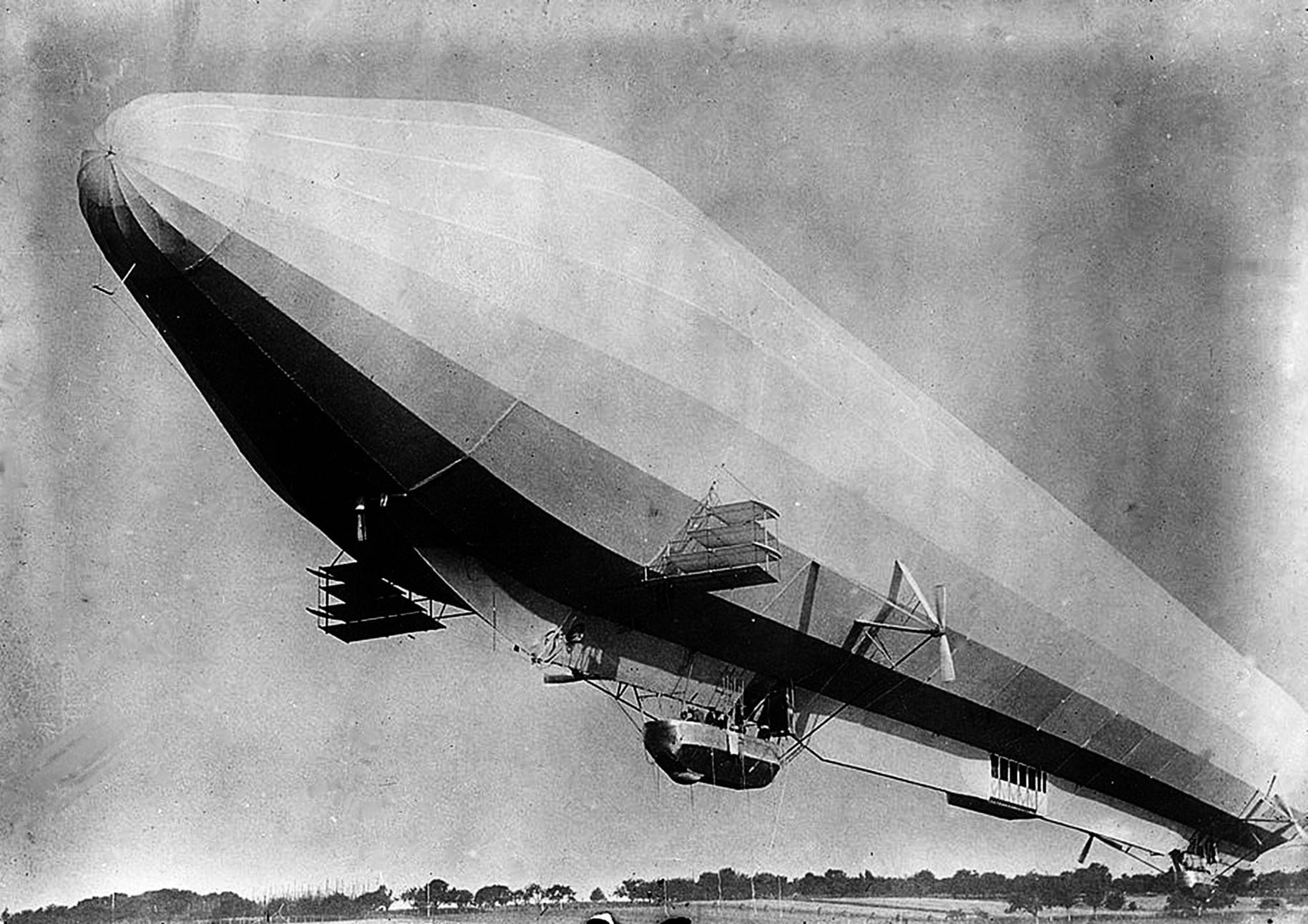 LZ7 Zeppelin Passenger ship